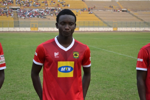 Official Dauda Pix